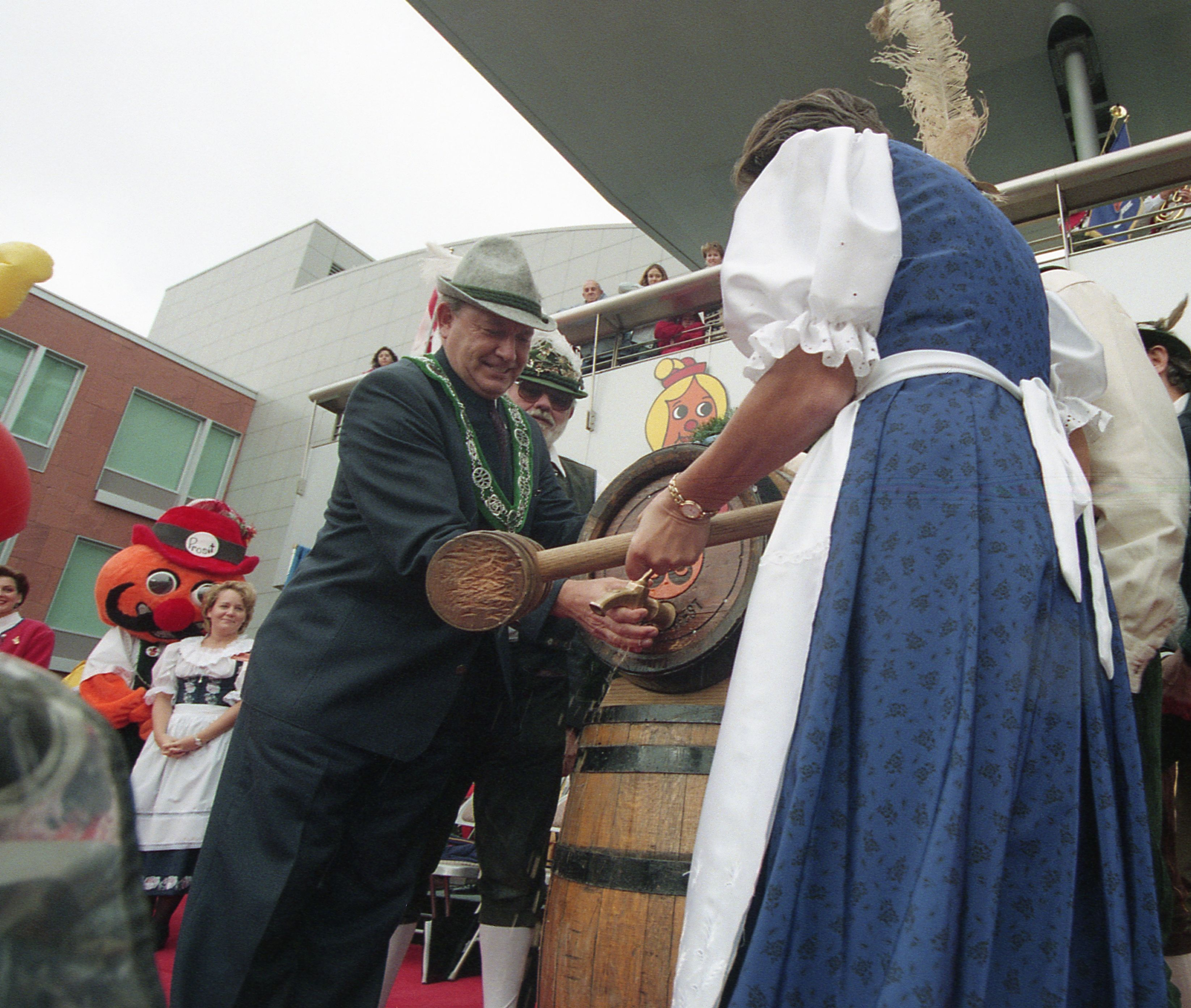 October 11, 1996 - Kitchener - Oktoberfest - Onkel Hans mascot, Elizabeth Witmer MPP taps keg to open Oktoberfest